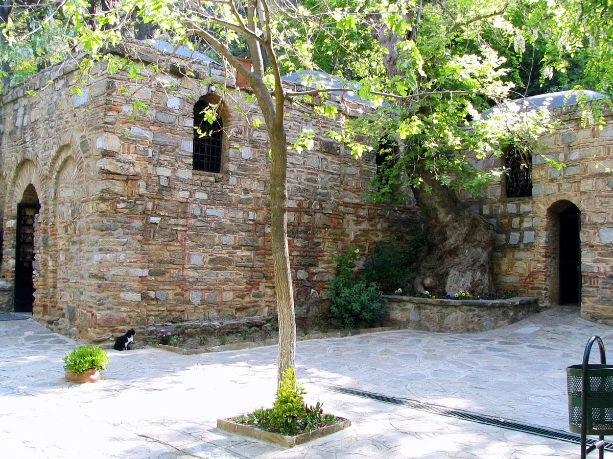 The Christian shrine, "House of Virgin Mary", at Ephesos, Turkey. May 2006. Photo by Winstonza talk 13:04